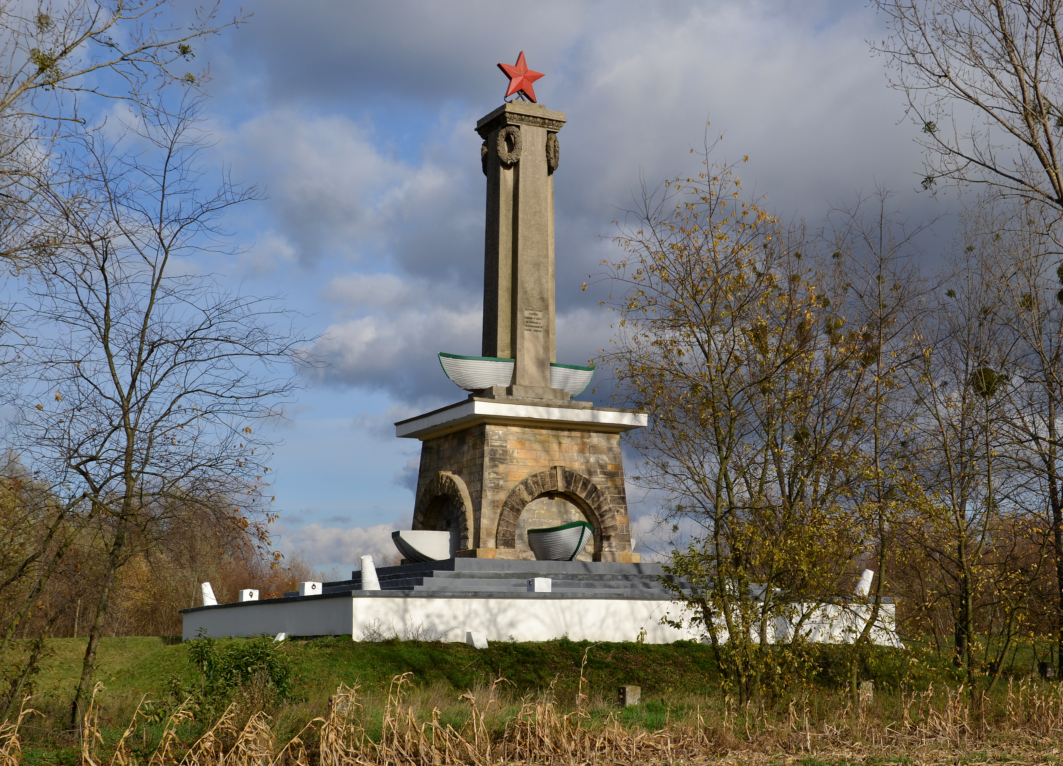 Red Army monument in Mikolin (Nikoline), Silesia, Poland